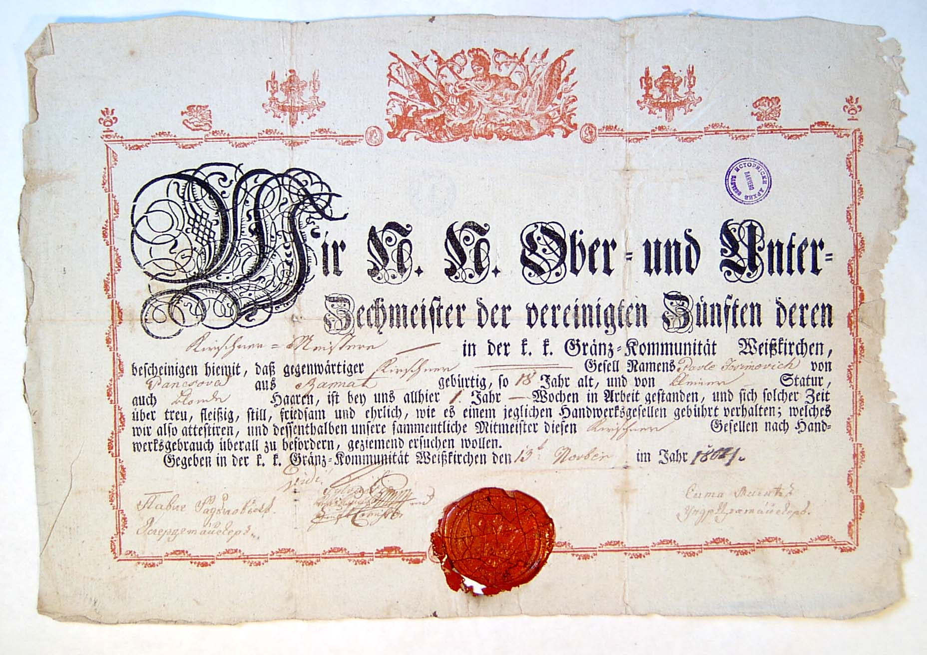 Certificate of Work, Bela Crkva